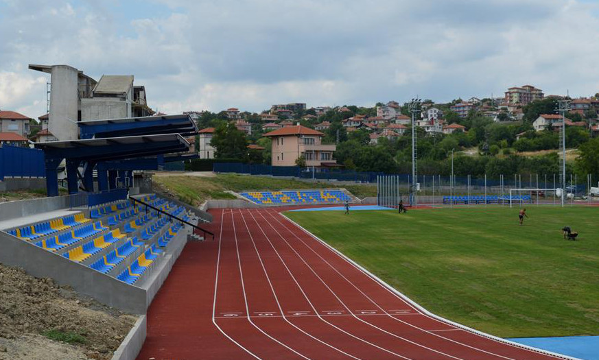 Chernomorets Stadium in Byala, Bulgaria.